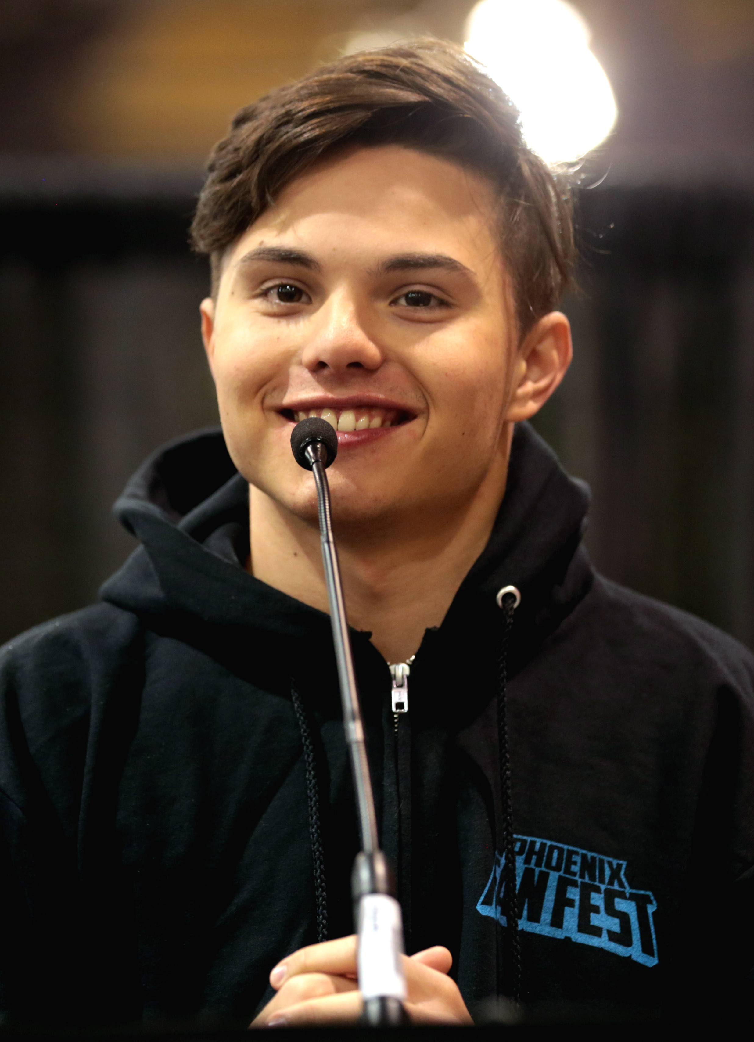 Zach Callison speaking at an event in Phoenix, Arizona.